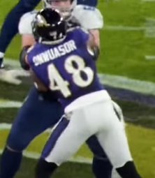 Patrick Onwuasor. Image from video Titans Mic'd Up vs. Ravens (AFC Divisional Round) | Sounds of the Game, ~ 03:35.